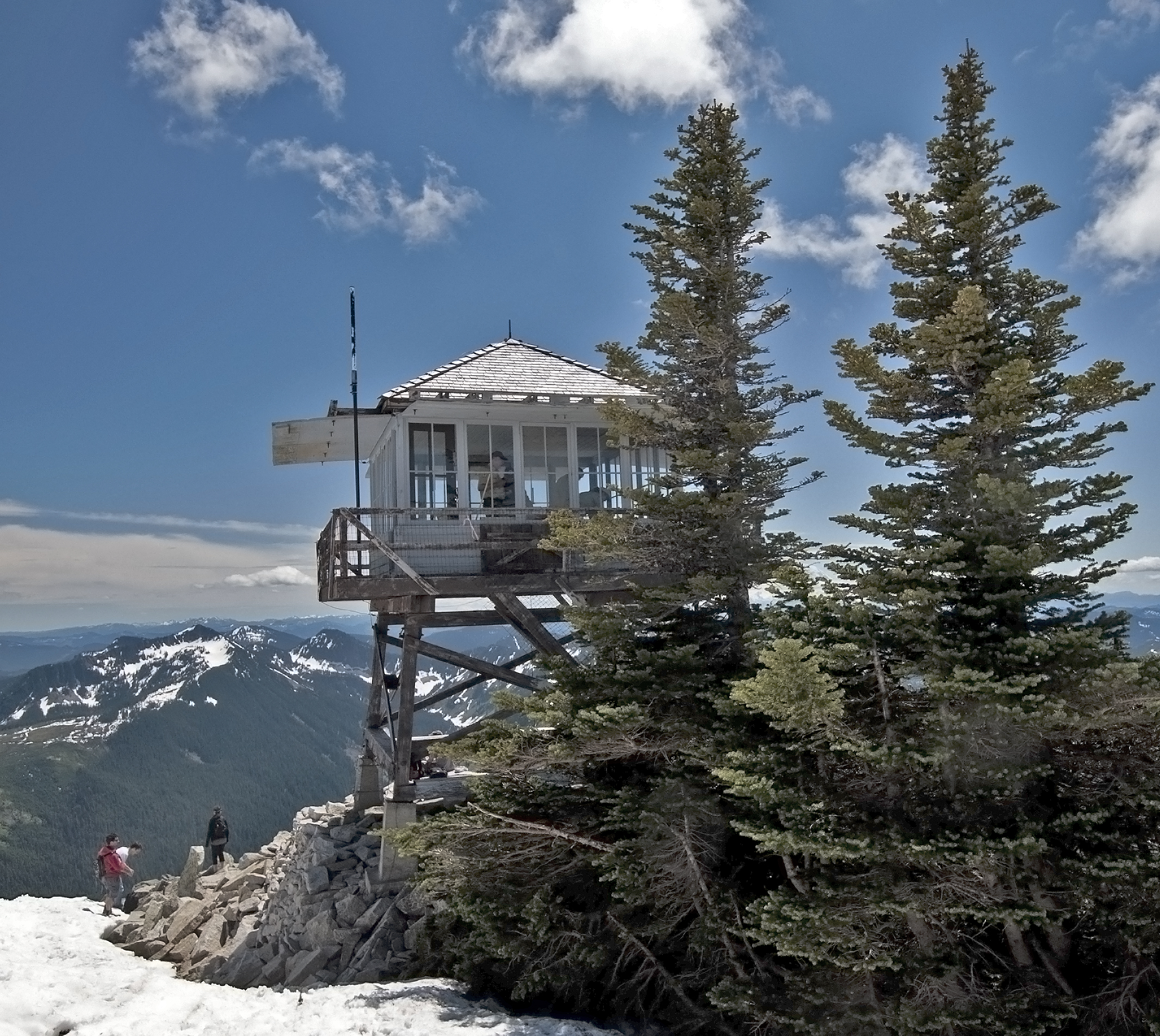 After four miles of climbing, hikers eagerly approach the lookout for the ultimate view of the Snoqualmie valley and Mt. Rainer. Photo by Kelly Sprute.